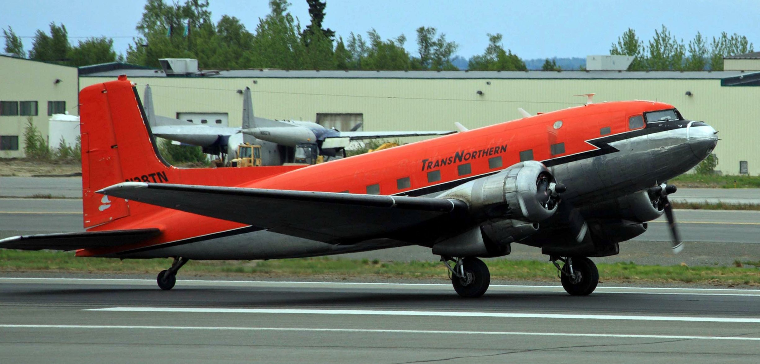 Anchorage International Airport. TransNorthern is mostly a charter airline with some scheduled freight flying for FedEx and UPS. They operate four Super DC-3s, 2 passenger and 2 freight.